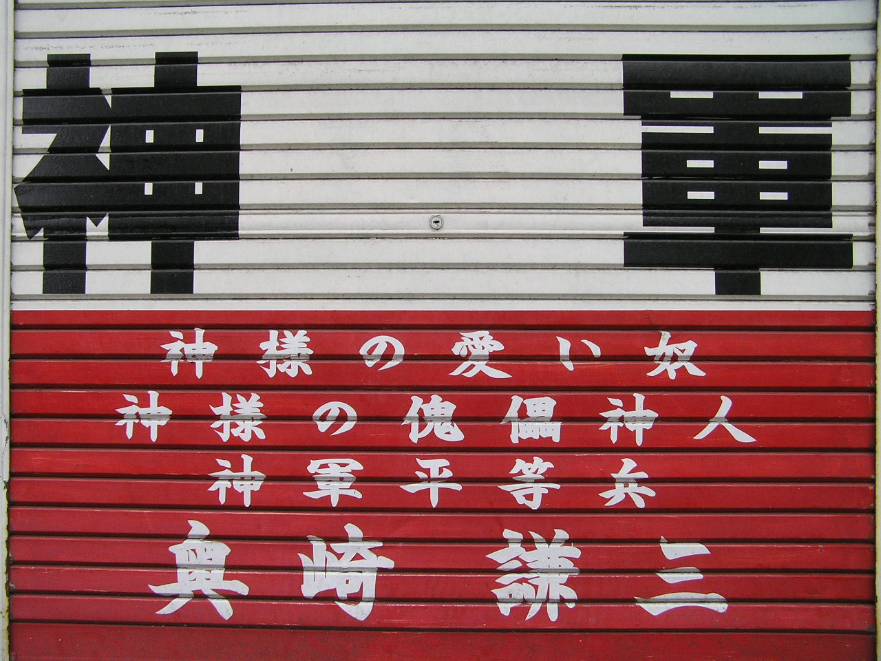 奥崎謙三 ～photo by Autumn Snake 【おぉたむ すねィく探検隊】